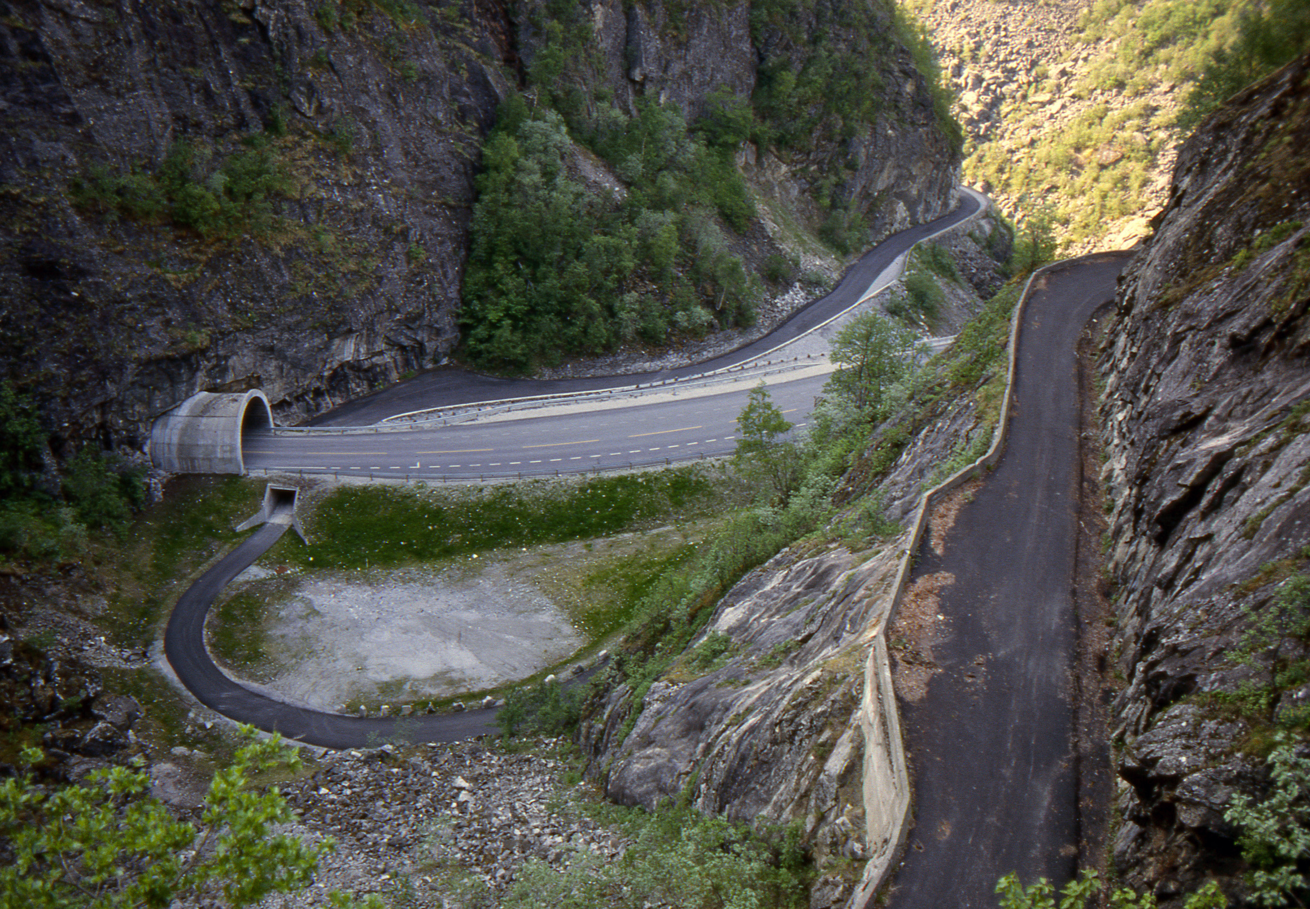 From Haugastøl to Eidfjord, Norway - June 14, 1989. Eastern (upper) end of Måbøtunnelen, at 1893 m the longest of the four modern road tunnels in Måbødalen valley. The photo shows Storegjelet ravine with the tunnel portal, a small part of the modern road, and parts of the narrow, old road.